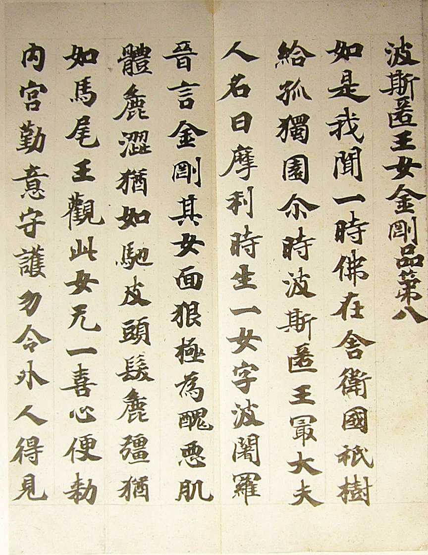 Opening of Segment of the Sutra of the Wise and Foolish One handscroll, ink on paper. Height 27.5cm, Total length :696.9cm. Chapters 8 ("Vajra, the Daughter of King Prasenajit"), 9 ("Golden Wealth"), 10 ("Heavenly Flowers"), 11 ("Heavenly Jewels"), and the final lines of Chapter 48 ("Upagupta") of the Sutra of the Wise and Foolish, or Sutra of the Karma of the Wise and Foolish. Total of 262 lines with eleven to fourteen characters per line. 8th century, Tokyo National Museum, Tokyo